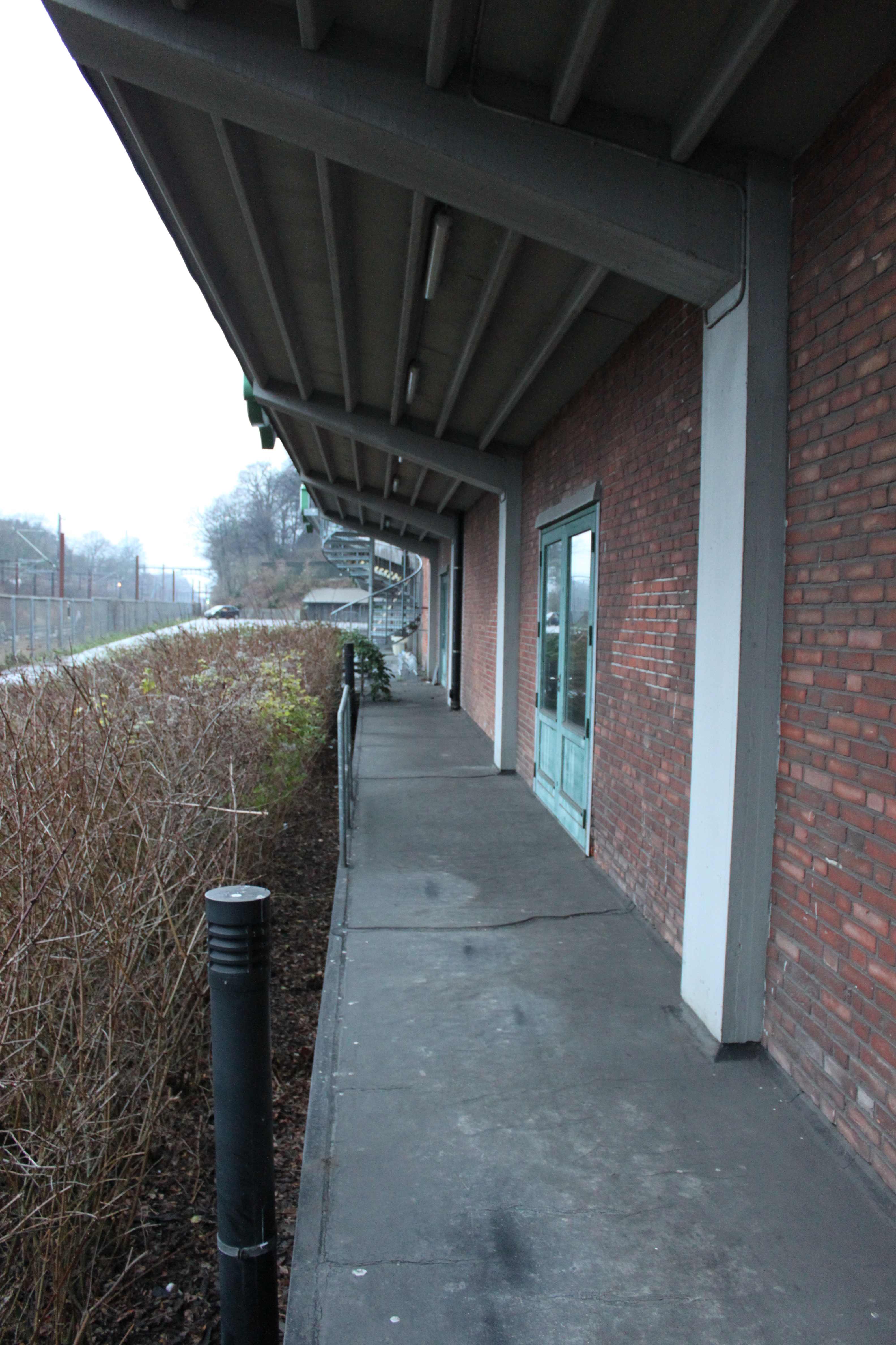 Former freight train station Hof at Carlsberg Brewery in Valby, Copenhagen, Denmark, outside aisle, seen from east towards west.